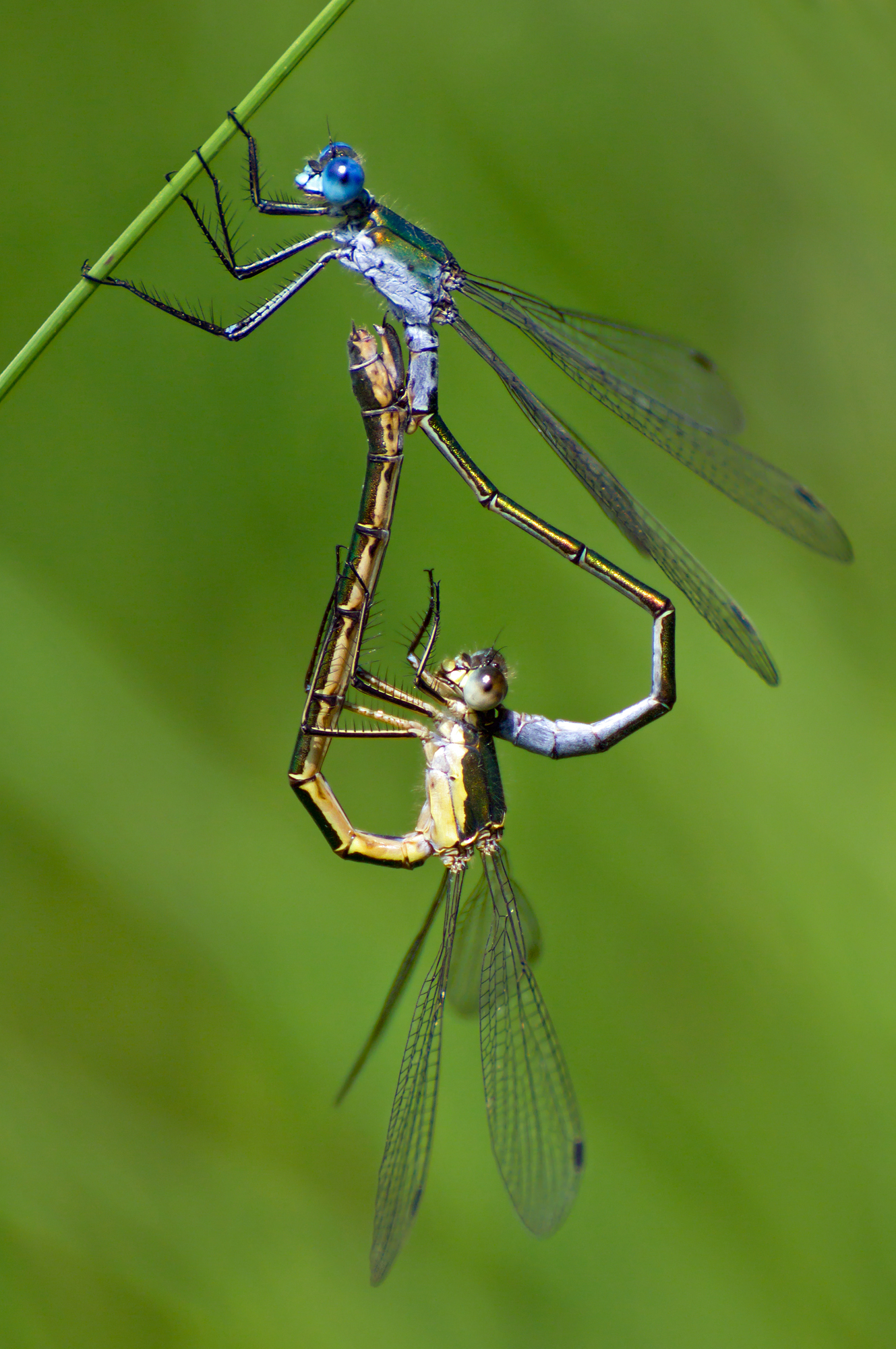 Scarce Emerald Damselfly (Lestes dryas) pair mating. Note the large ovipositor on the female.